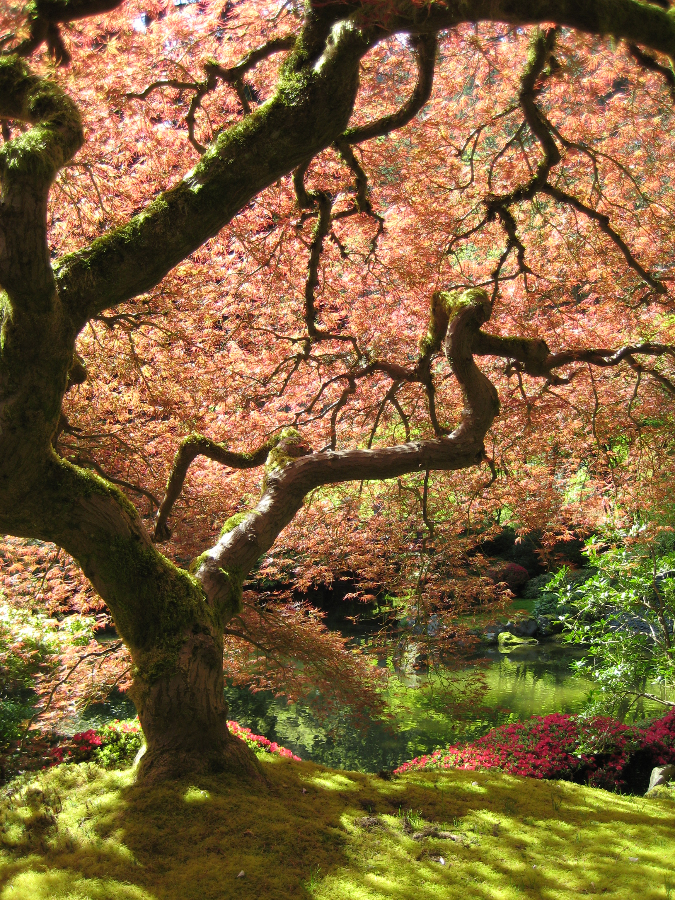 A Japanese Maple (Acer palmatum) in the Portland Japanese Garden.